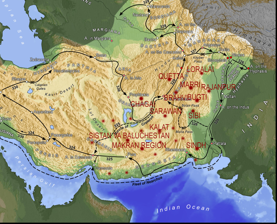 == Addition of mountainous regions